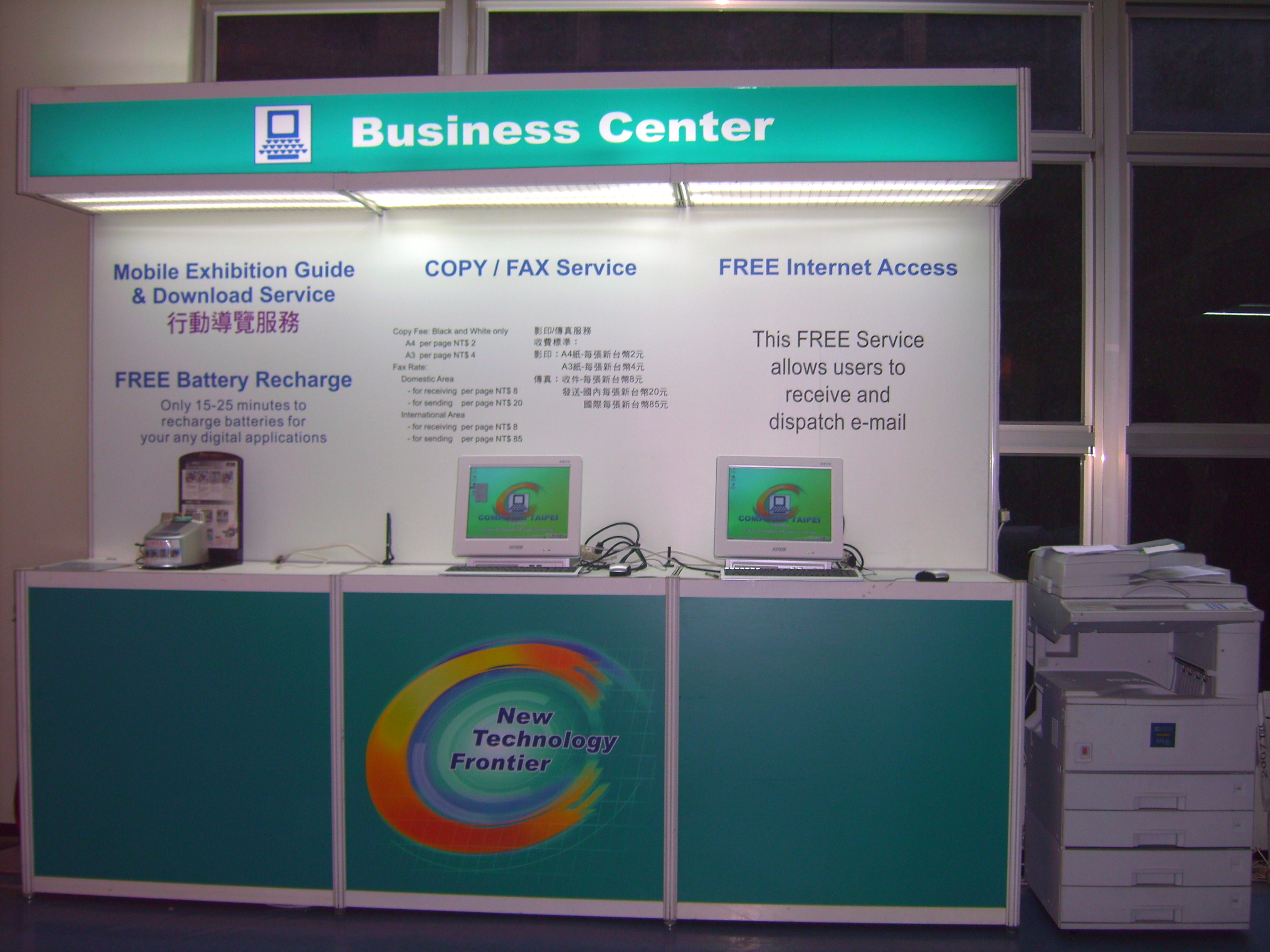 2007 Computex Taipei Day 5: Business Center for Buyers and Press is located at TWTC Hall 3.